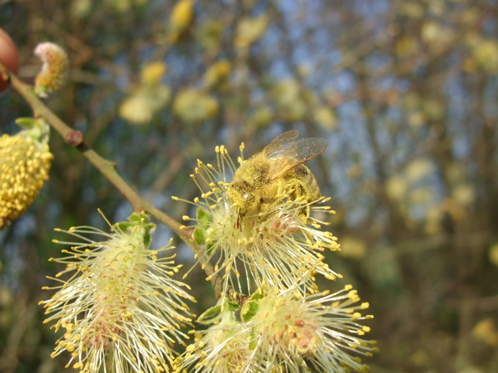 Male catkins of Salix cinerea with bee (Apis mellifera)